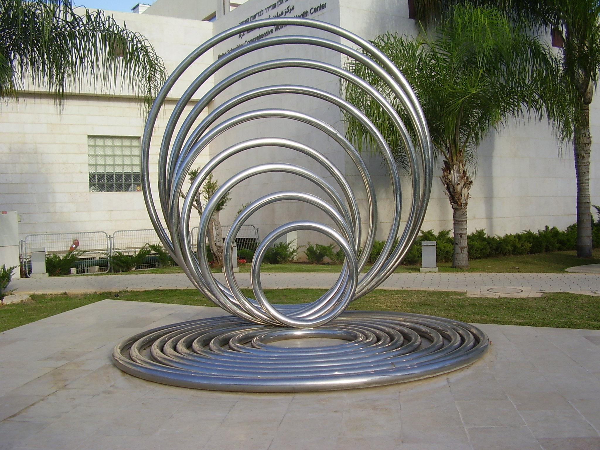 \"power\" by ya\'akov agam in beilinson medical center